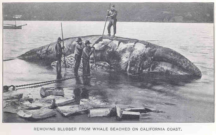 Removing Blubber from Whale Beached on California Coast Subject: Whaling, Rendering industry Tag: Aquatic Mammals